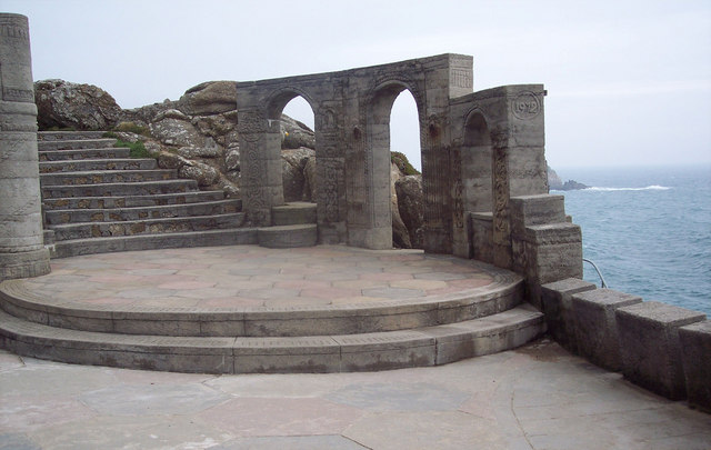 Minack Theatre Outdoor theatre built by Rowena Cade and her gardener.